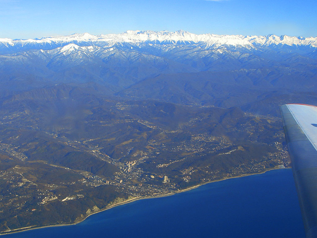 Dagomys, Sochi - view from the height of the plane on a background of the Greater Caucasus Range. Picture taken on board the airplane flight Moscow-Sochi